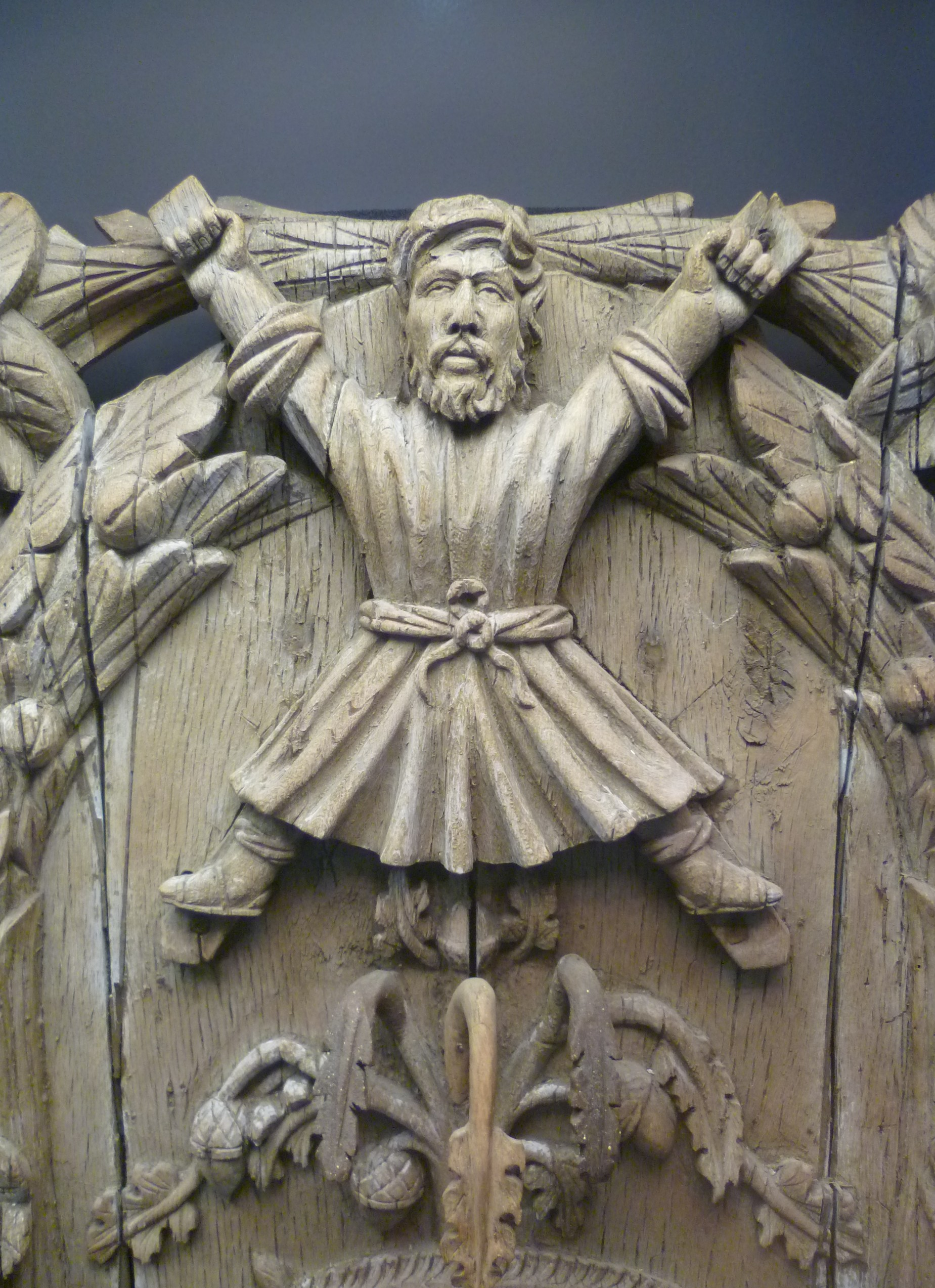 Saint Andrew depicted on a 16thC coat-of-arms of the burgh of St. Andrews. It is believed to have come from the town's Holy Trinity Church and is now displayed in the St. Andrews Museum.